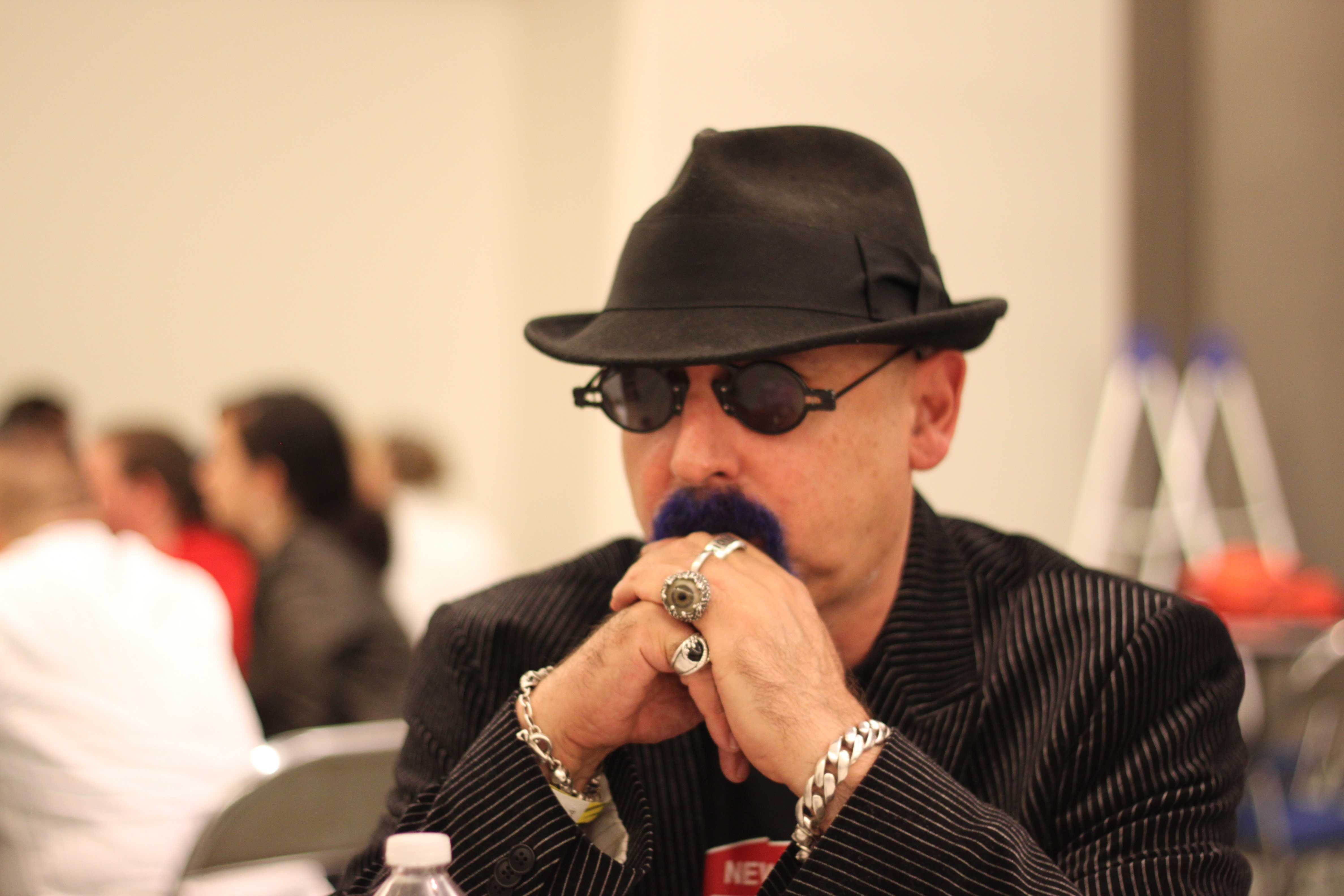 A photograph of Ira Steven Behr